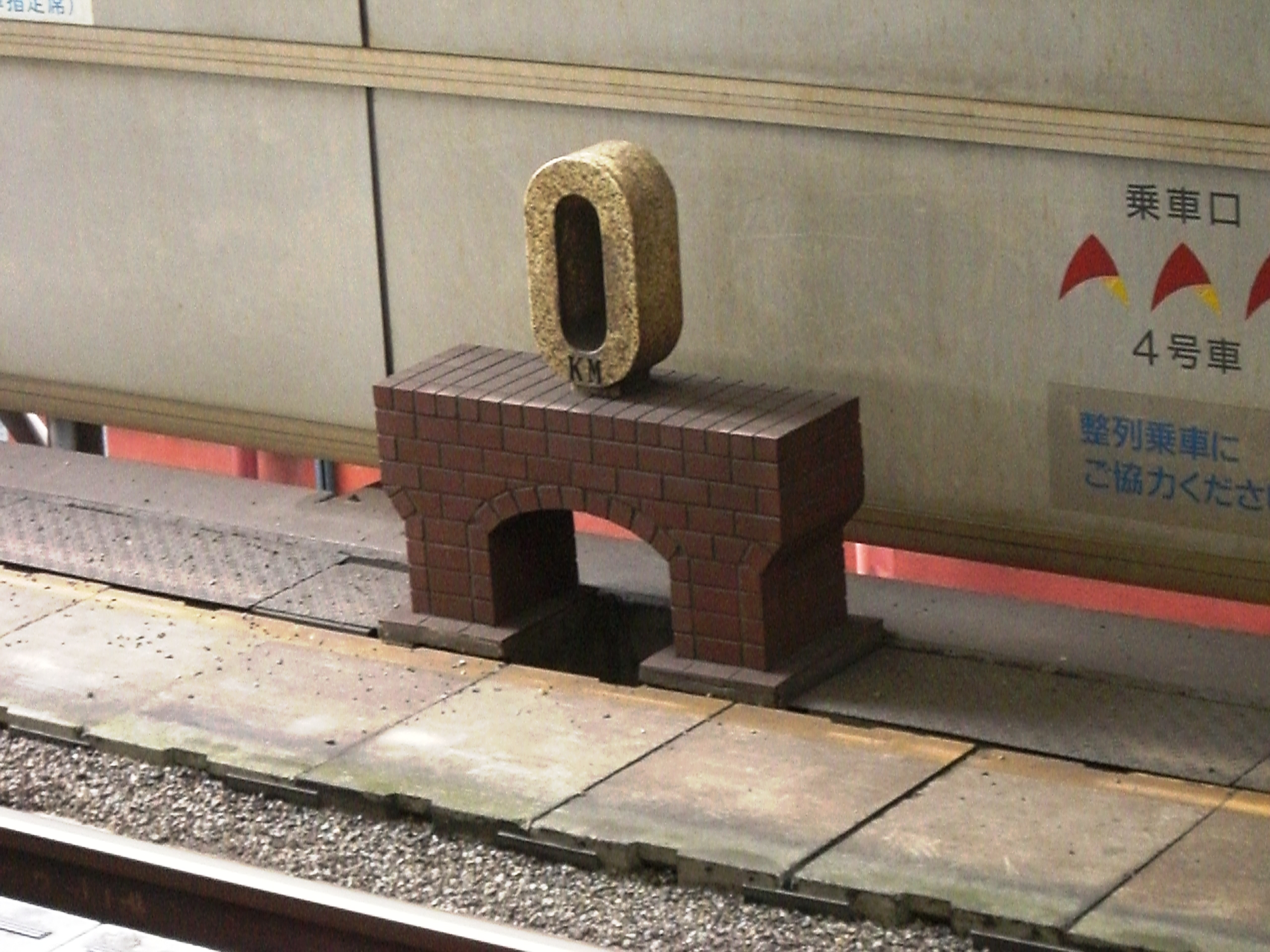 0kmPost at Tokyo station 1st home.